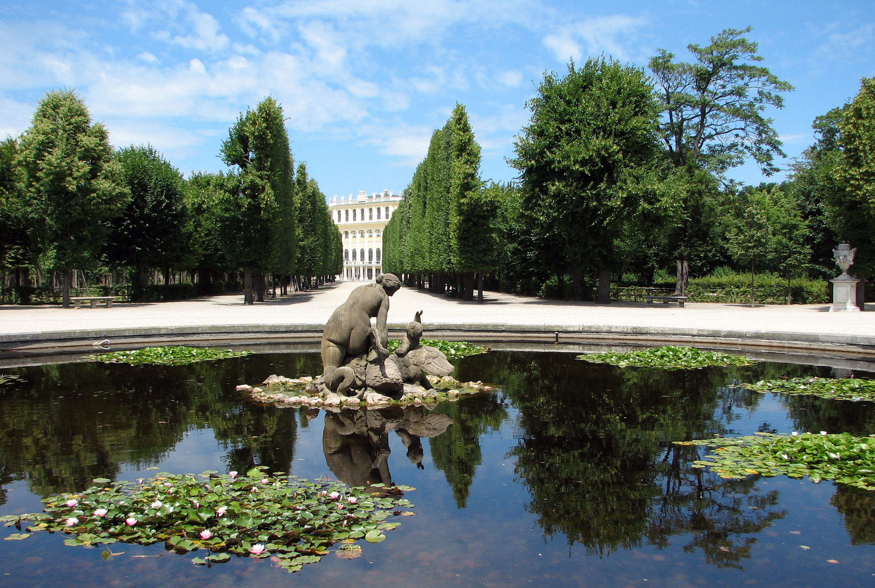 Round Pool (Rundbassin) at Schönbrunn, Vienna